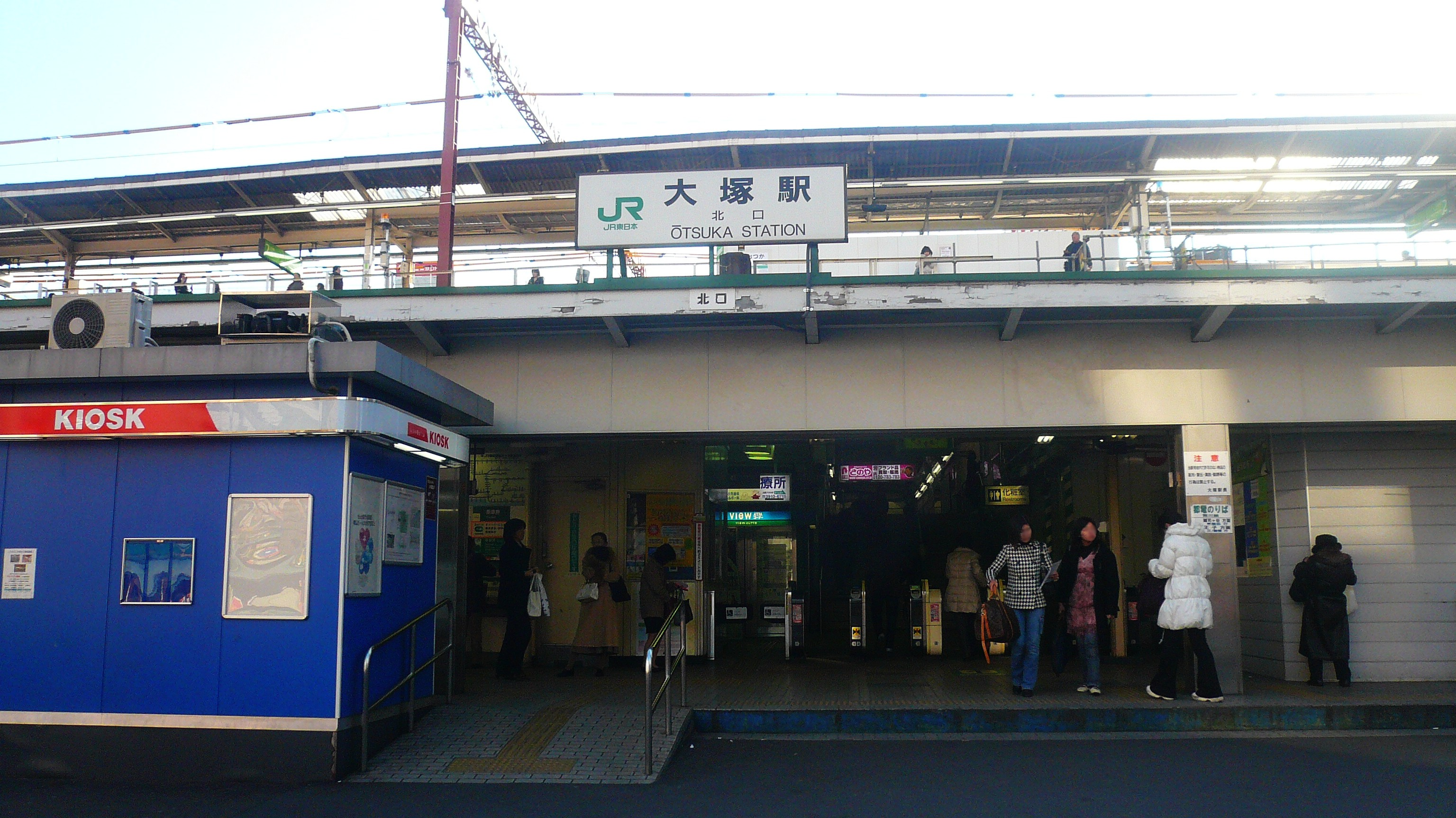 Otsuka Station in Tokyo. North exit. (大塚駅)